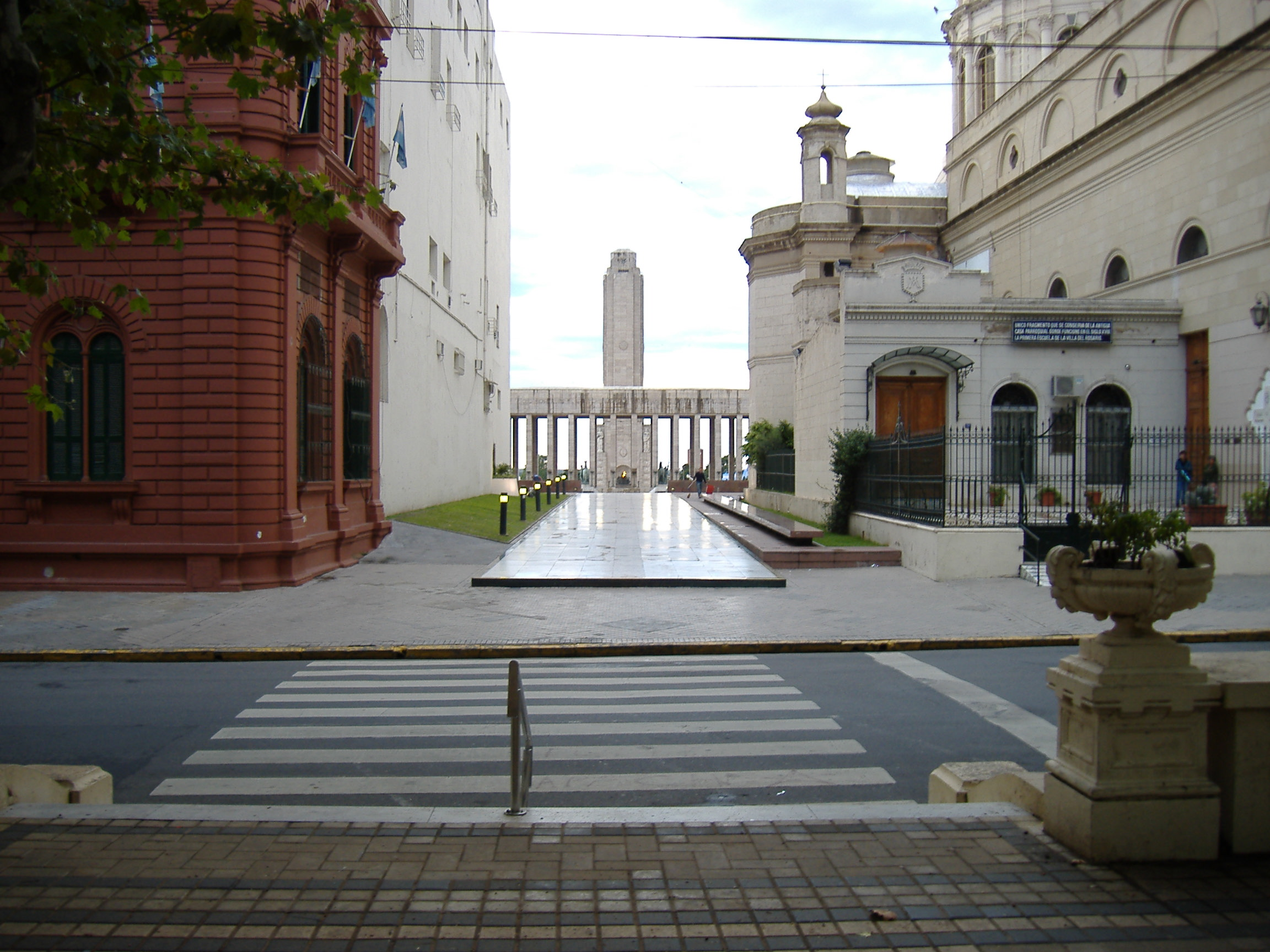 Pasaje Juramento (Oath Passage), a pedestrian passage in the historical core of the city of Rosario, Argentina. It runs a few tens of meters, between the Palacio de los Leones (seat of the municipal executive branch) and the Basilica Cathedral of Our Lady of the Rosary, from Plaza 25 de Mayo (May 25 Square) and the National Flag Memorial, which can be seen on the back of the picture. I, Pablo D. Flores, took this picture on 28 February 2006.